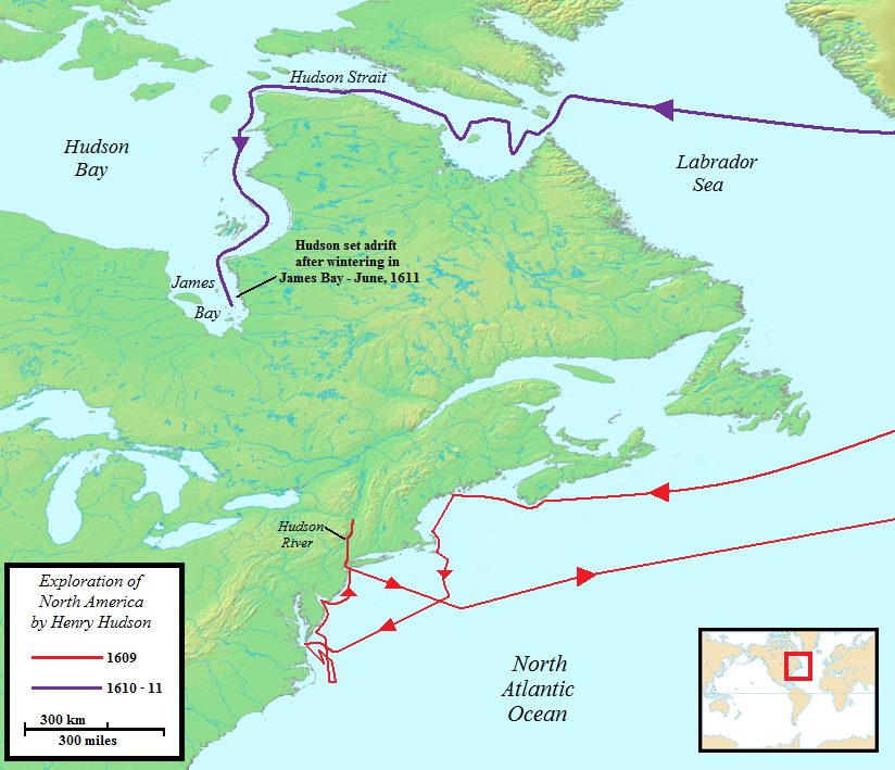 Map of the two North American voyages of Henry Hudson. Route of first voyages shown in red, second in purple.